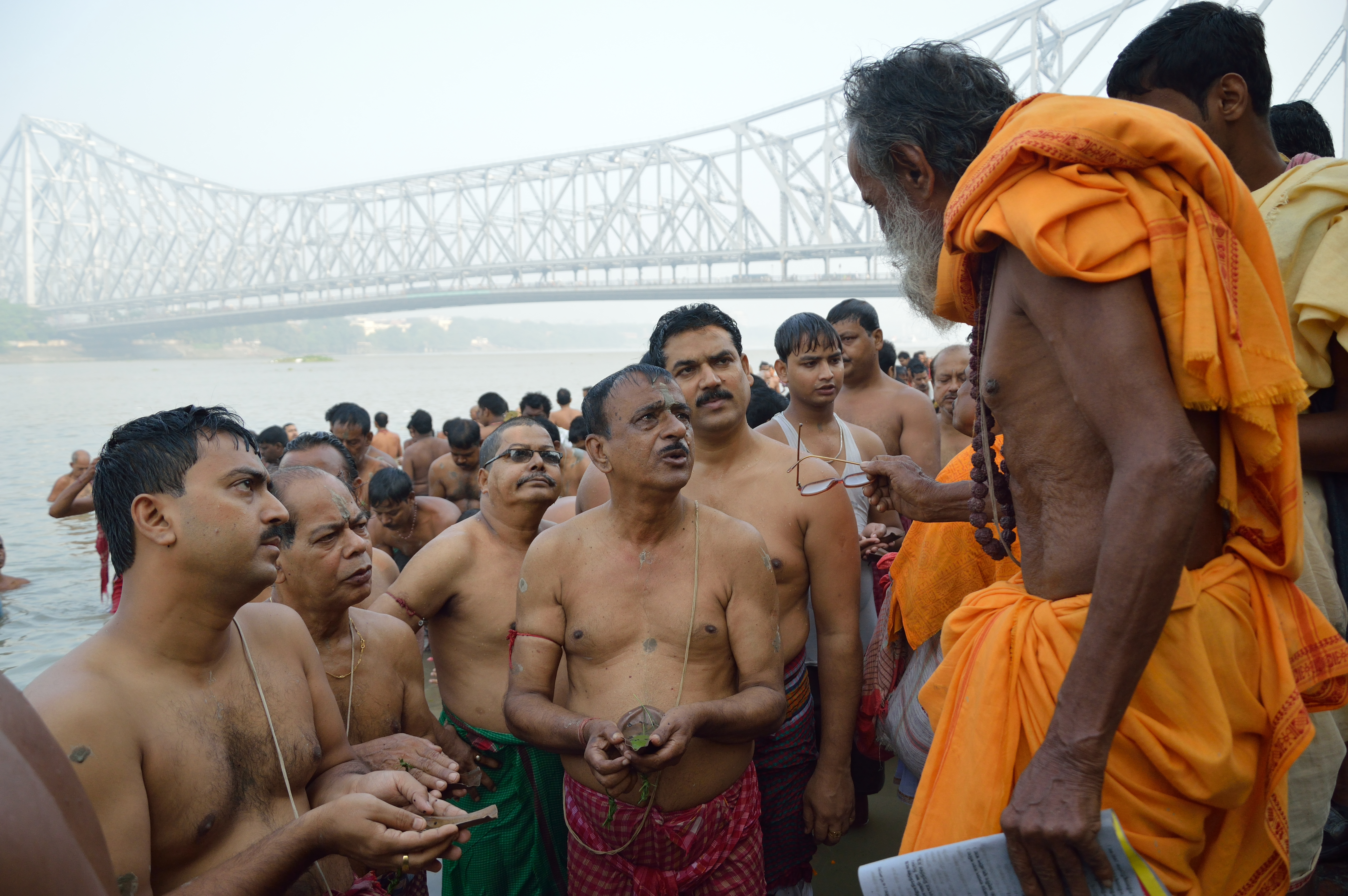 Tarpan or Tarpana or Tarpanam - It is a Hindu ritual, the sacrament of offering drinking water to the manes. It is well practised on the 'Mahalaya' day when 'Pitri Paksha' ends and 'Devi Paksha' starts.